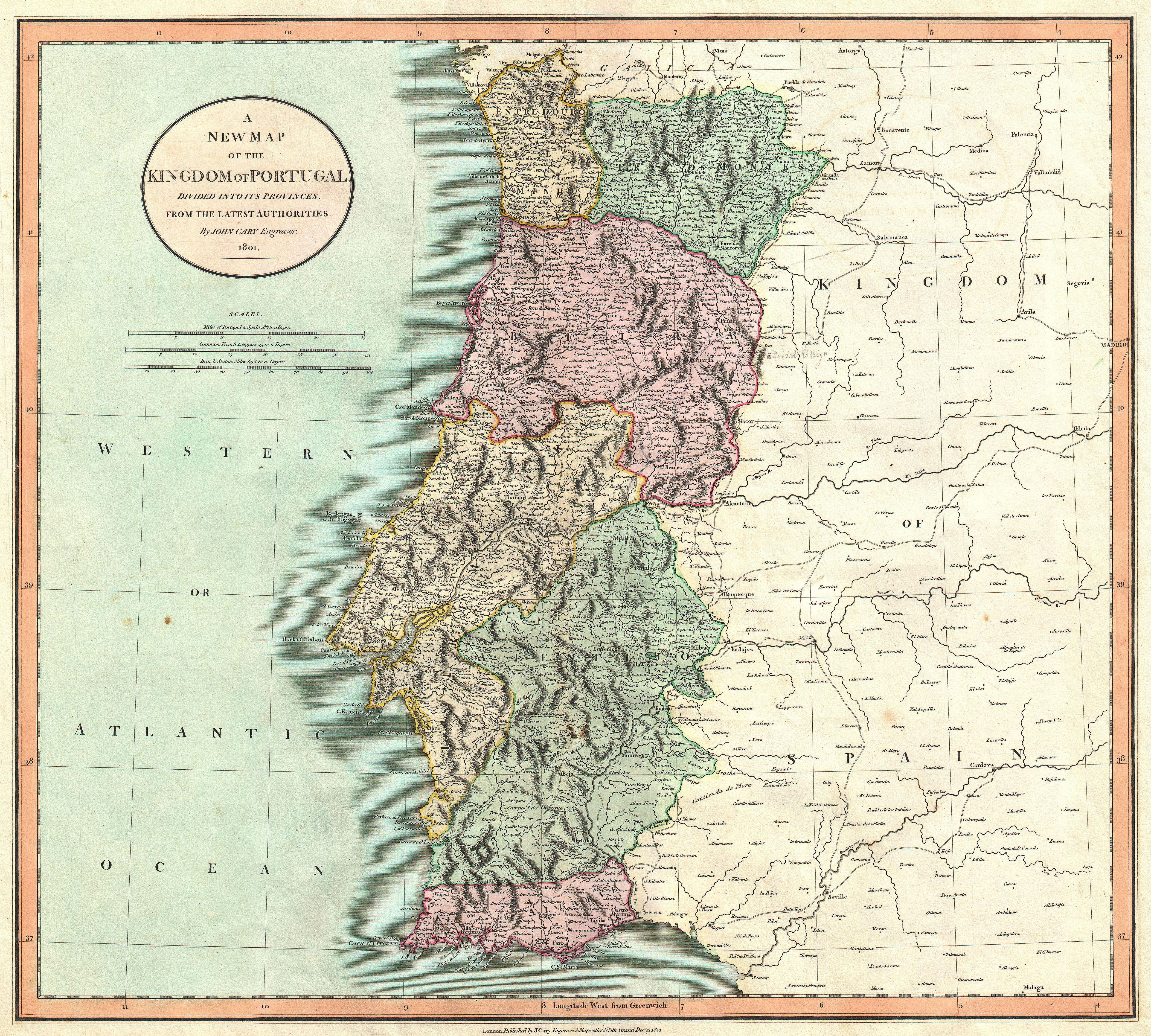 An extremely attractive example of John Cary’s 1801 map of Portugal. Highly detailed and color coded according to region. All in all, one of the most interesting and attractive atlas maps Portugal to appear in first years of the 19th century. Prepared in 1801 by John Cary for issue in his magnificent 1808 New Universal Atlas .